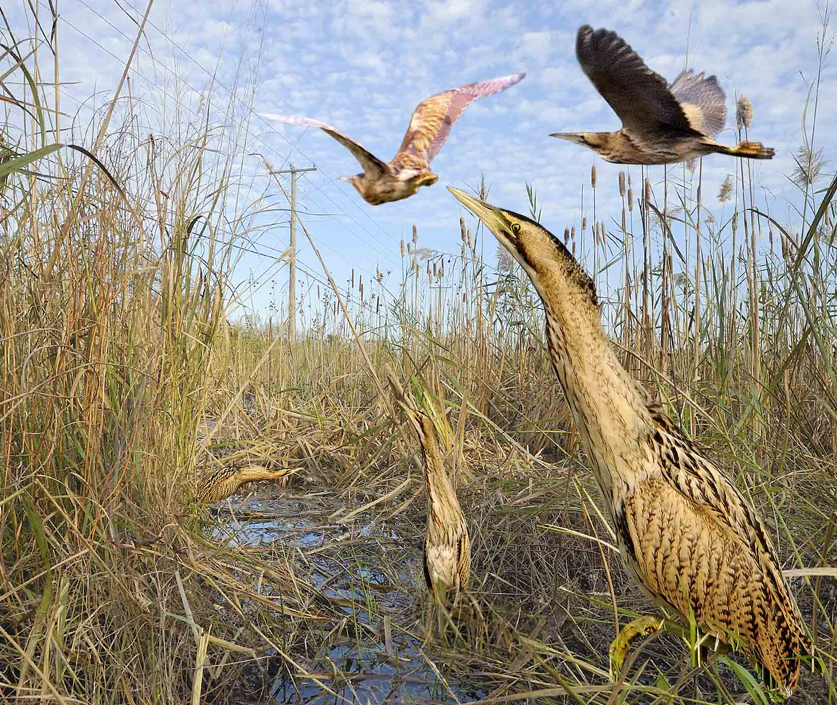 Eurasian Bittern from the Crossley ID Guide Britain and Ireland